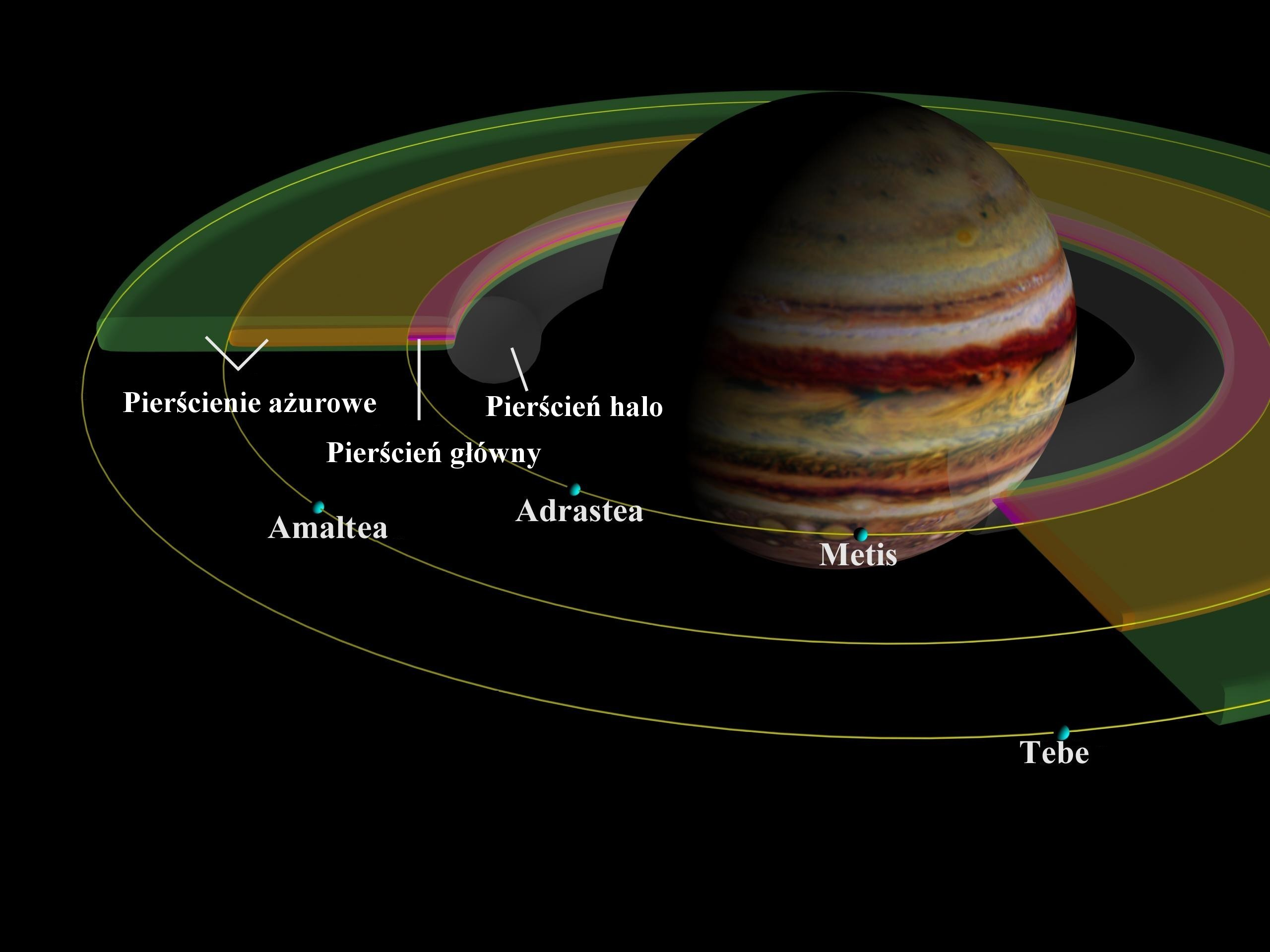 Rings of Jupiter with Polish description.